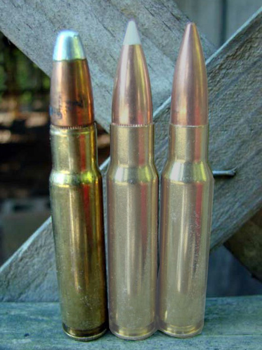 The .358 Winchester compared to .338 Federal (center) and .308 Winchester (right)